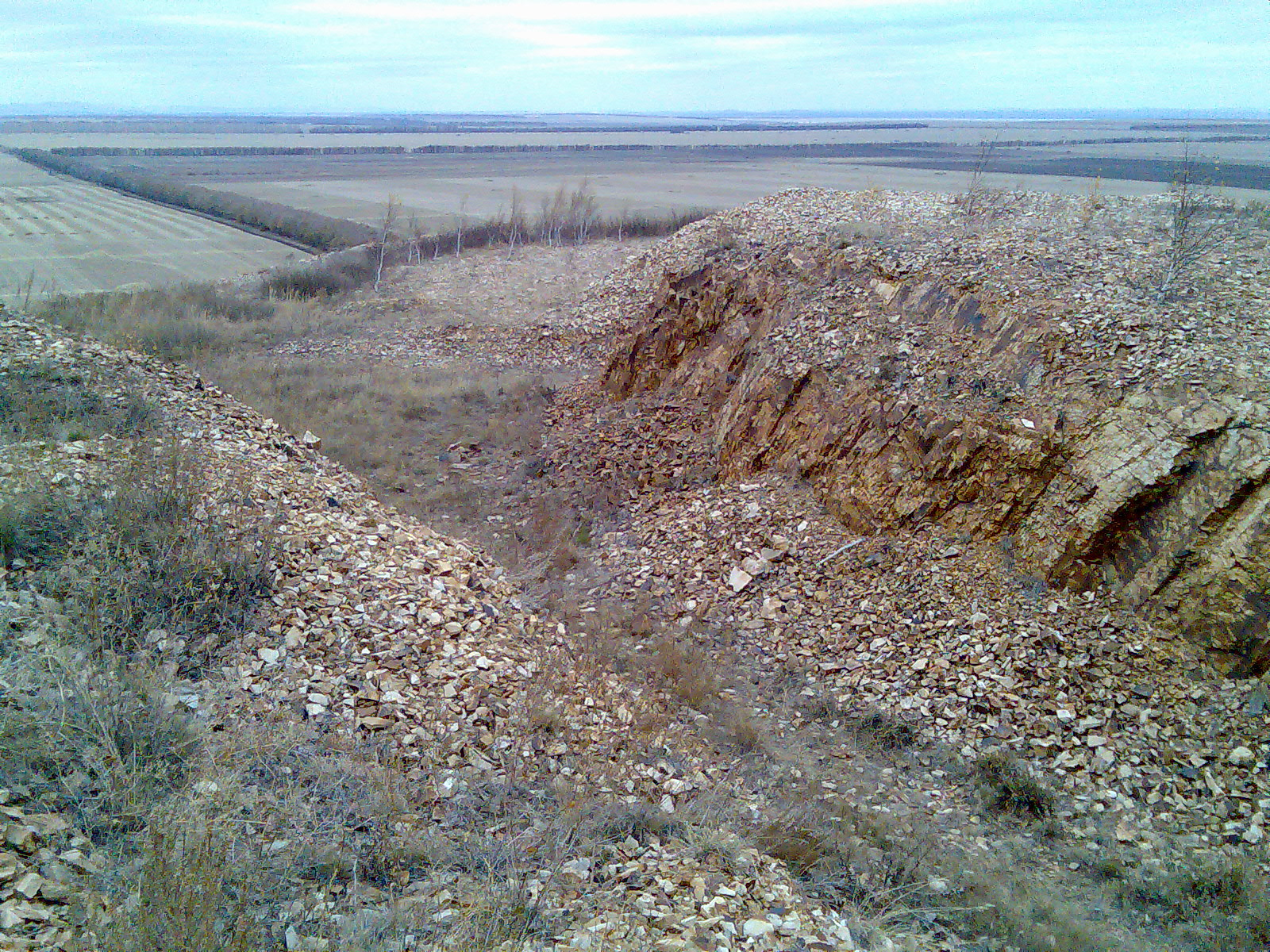 Quarry mt. Muldak-Tau (Abzelilovsky District, Bashkortostan)